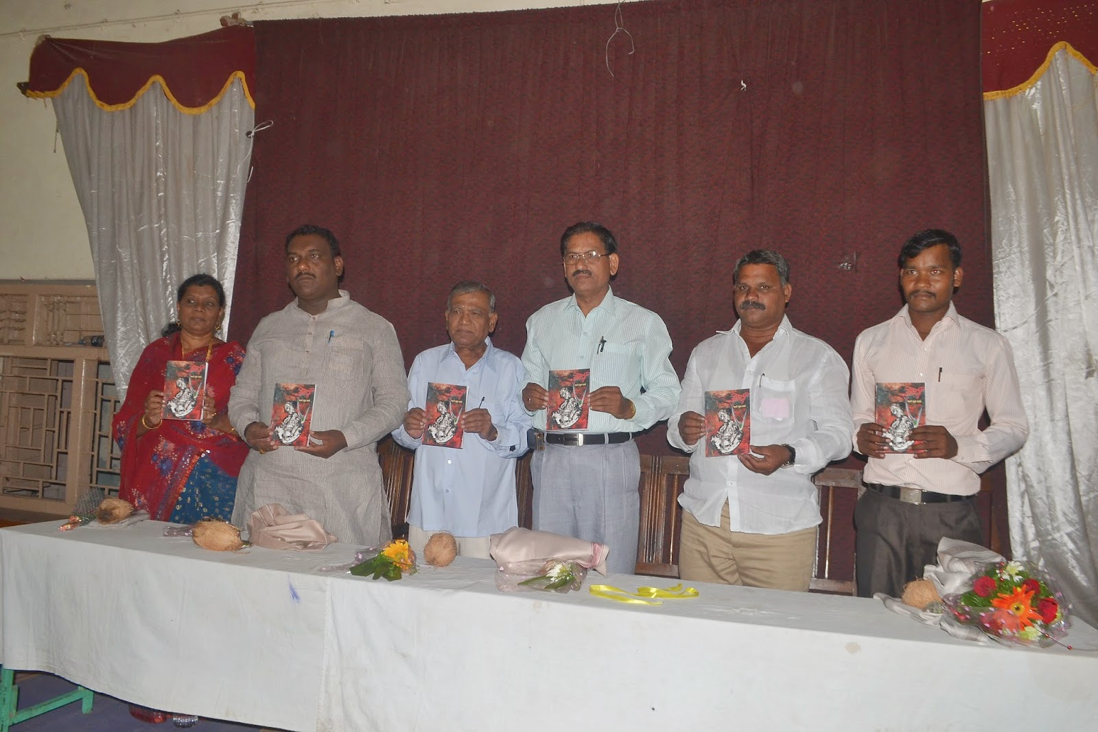 शहाजी कांबळे